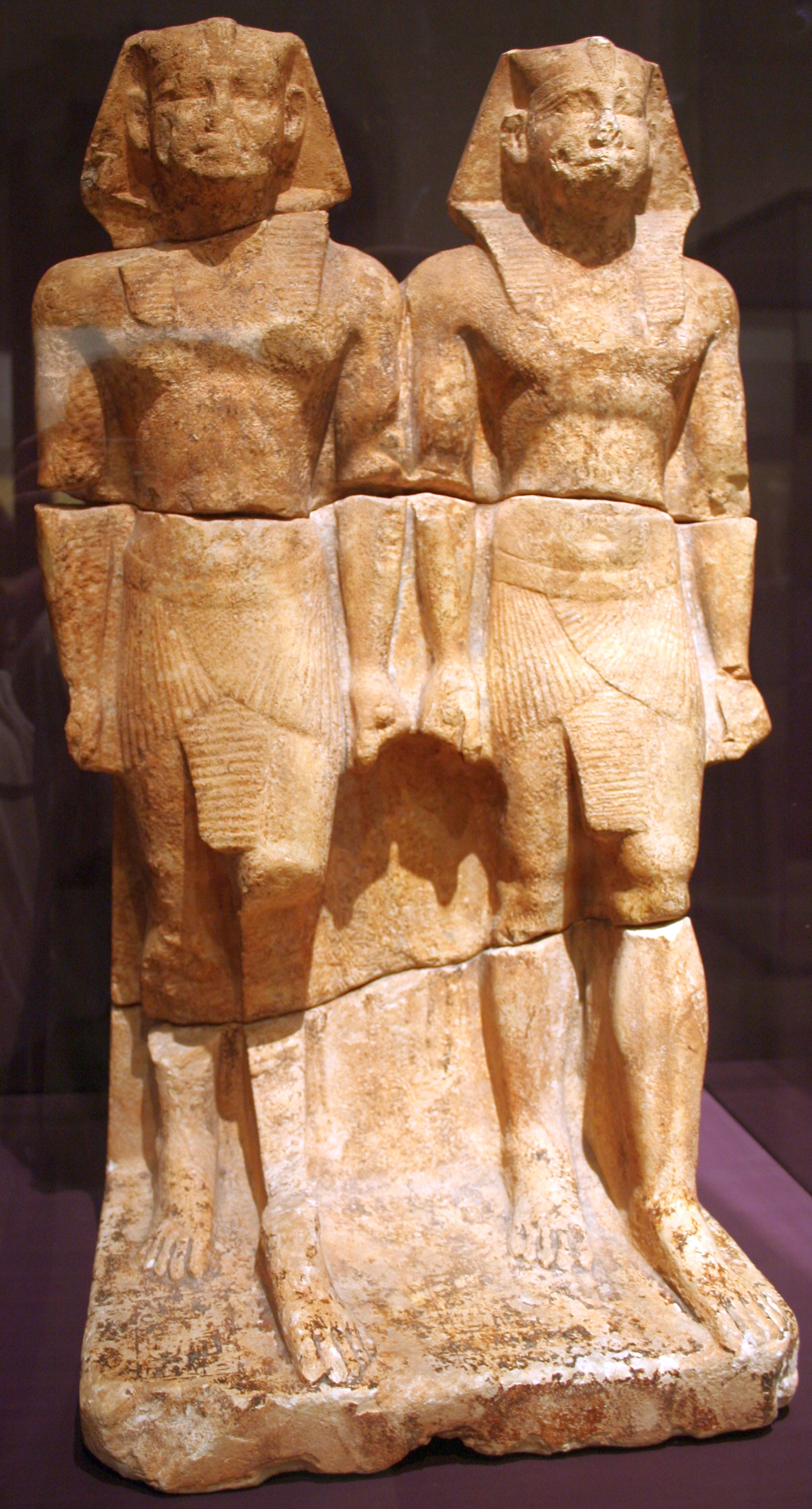 Double Statue of Pharaoh Niuserre, Munich Museum